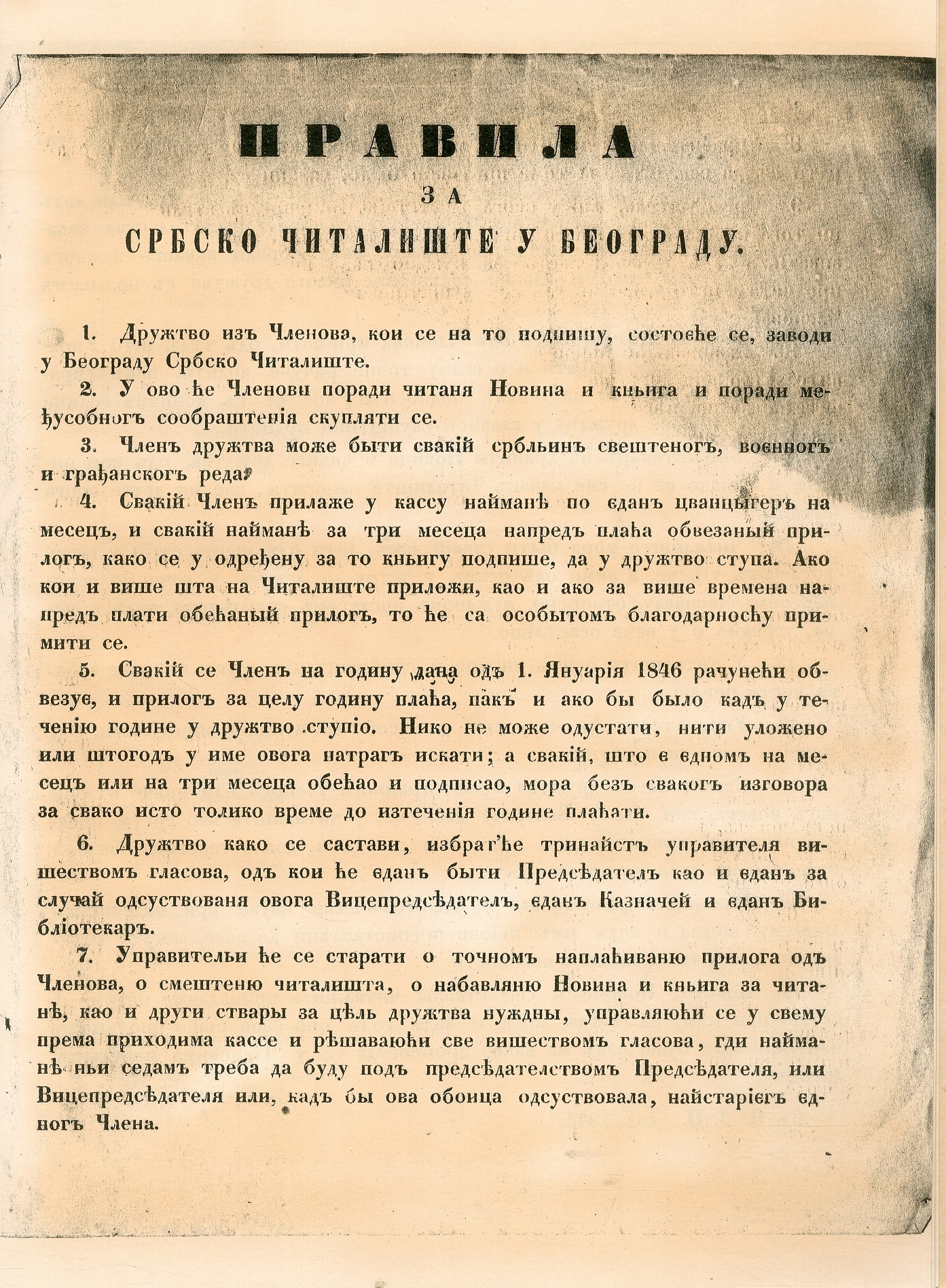 Regulations